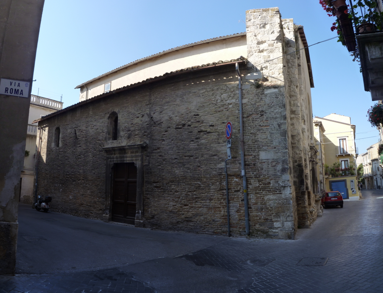 The church of San Silvestro in Guardiagrele, in the province of Chieti, Abruzzo